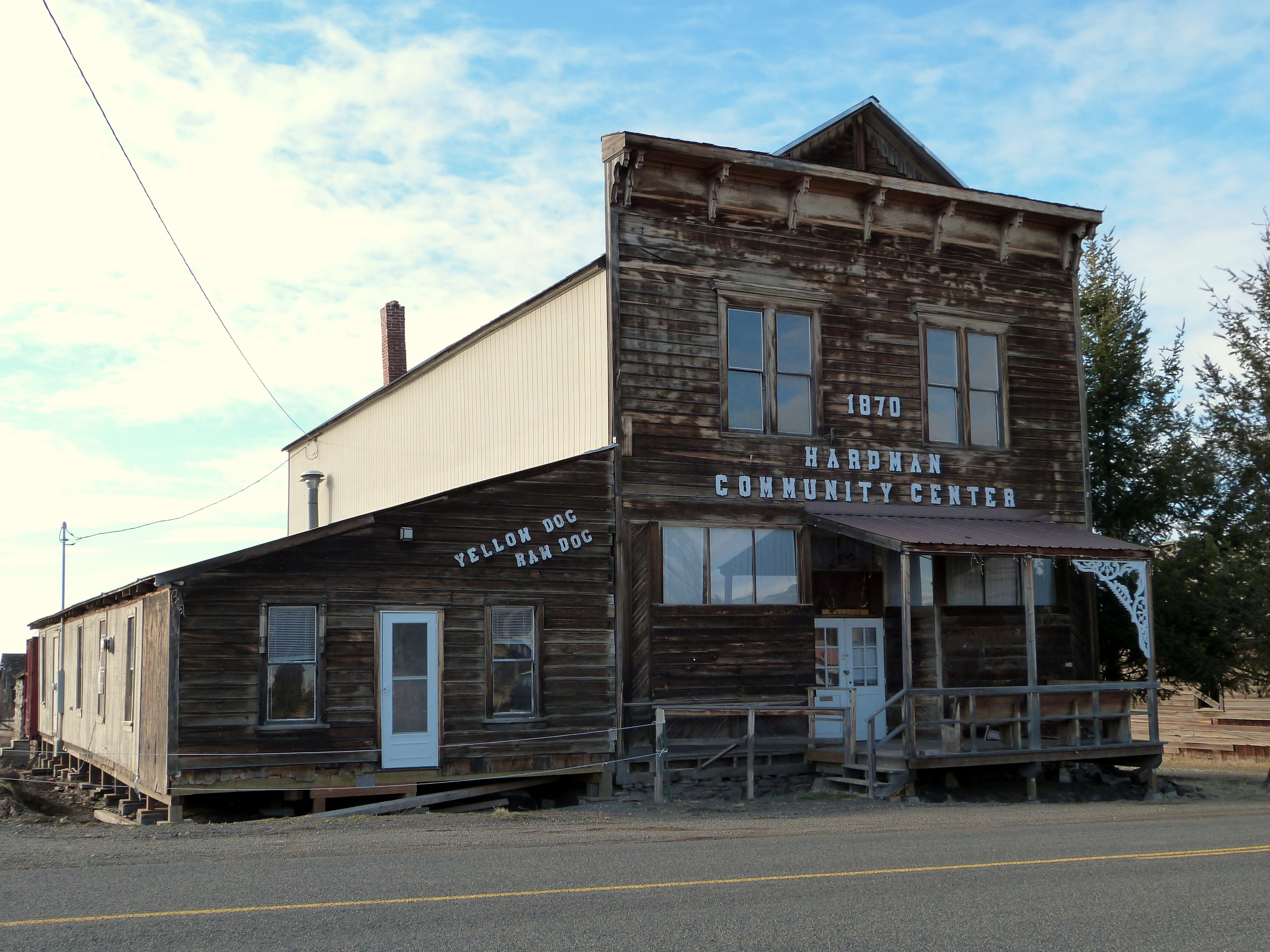 The historic Hardman IOOF Lodge Hall (built 1900, contrary to the apparent date posted on the building's facade sign), located at 51186 Oregon Route 207 in Hardman, Oregon, United States, is listed on the US National Register of Historic Places.